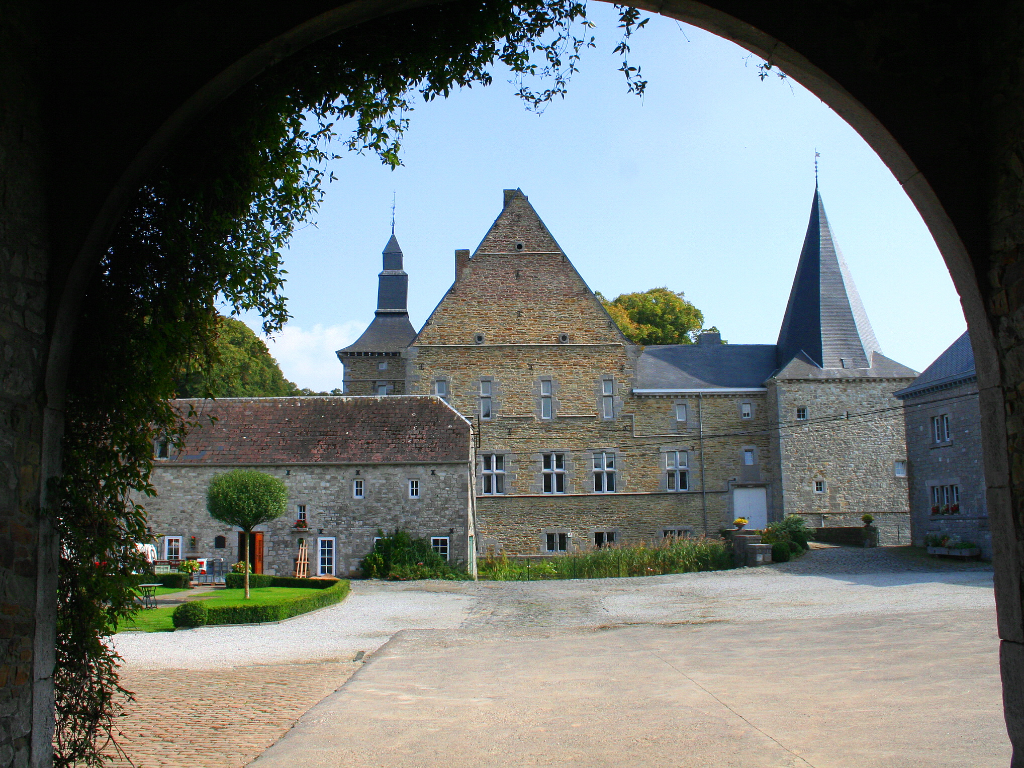 Abée (Belgium), the castle (XVIIIth century).